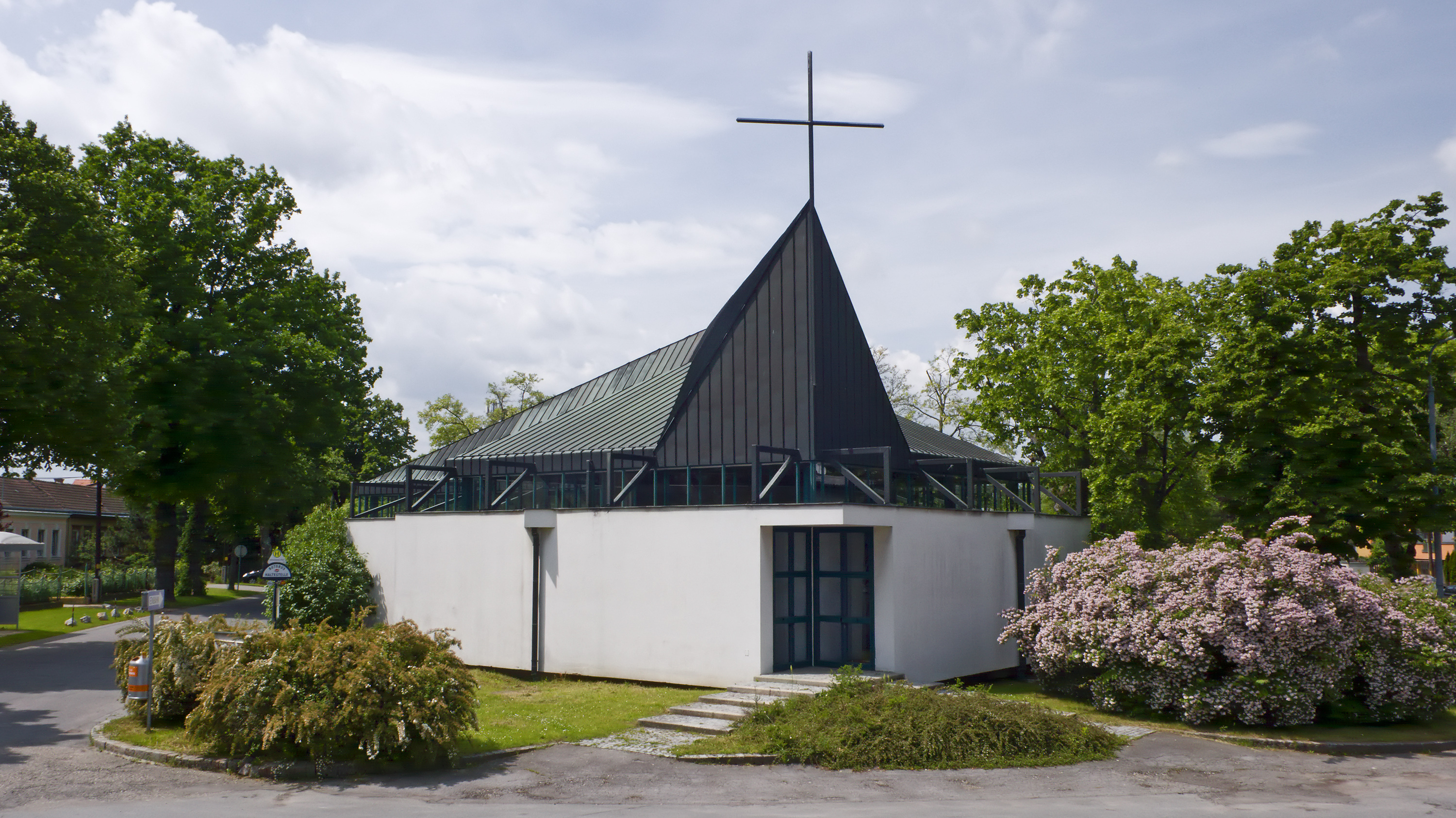 Church Süßenbrunner Pfarrkirche in Vienna Donaustadt